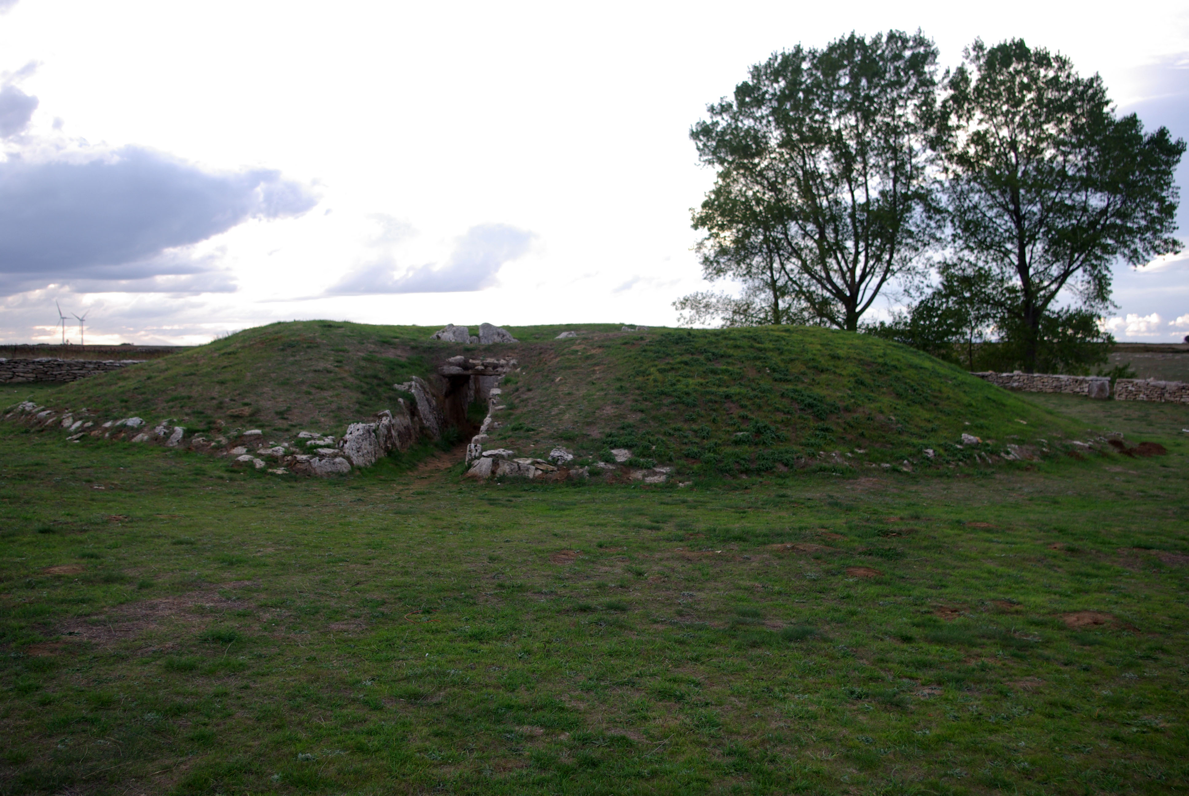 Dolmen of La Cabaña, near Sargentes de la Lora, Burgos, (Spain)